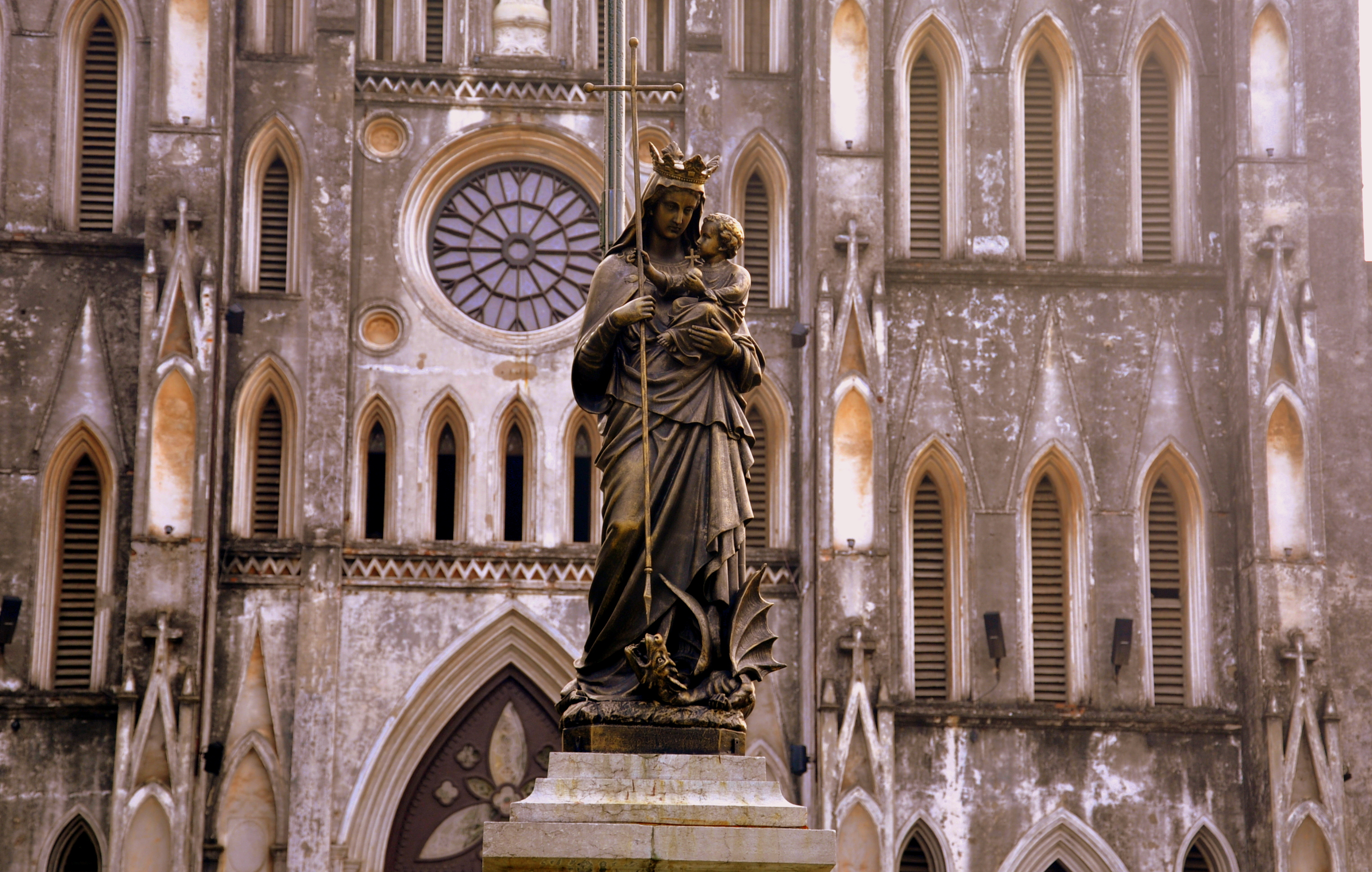 Regina Pacis (Queen of Peace), St. Joseph's Cathedral, Hanoi, Vietnam Saint Joseph Cathedral (Vietnamese: Nhà thờ Lớn Hà Nội, Nhà thờ Chính tòa Thánh Giuse) is a Roman Catholic cathedral in Hanoi, Vietnam. It is the seat of the Roman Catholic Archdiocese of Hanoi. The church was built in 1886 in the neo-gothic style. It holds several masses throughout the day and is usually crowded on weekends and religious holidays.